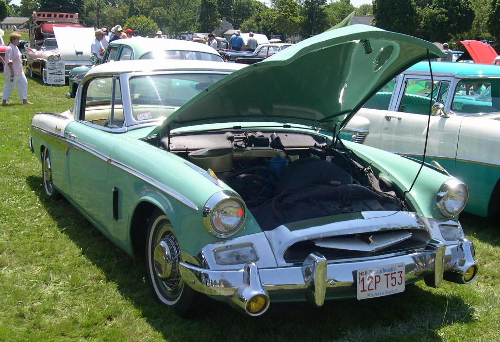 1955 Studebaker President State Hard-top (NOT a Speedster) Source: Photographed at the Bay State Antique Automobile Club's July 10, 2005 show at the Endicott Estate in Dedham, MA by User:Sfoskett